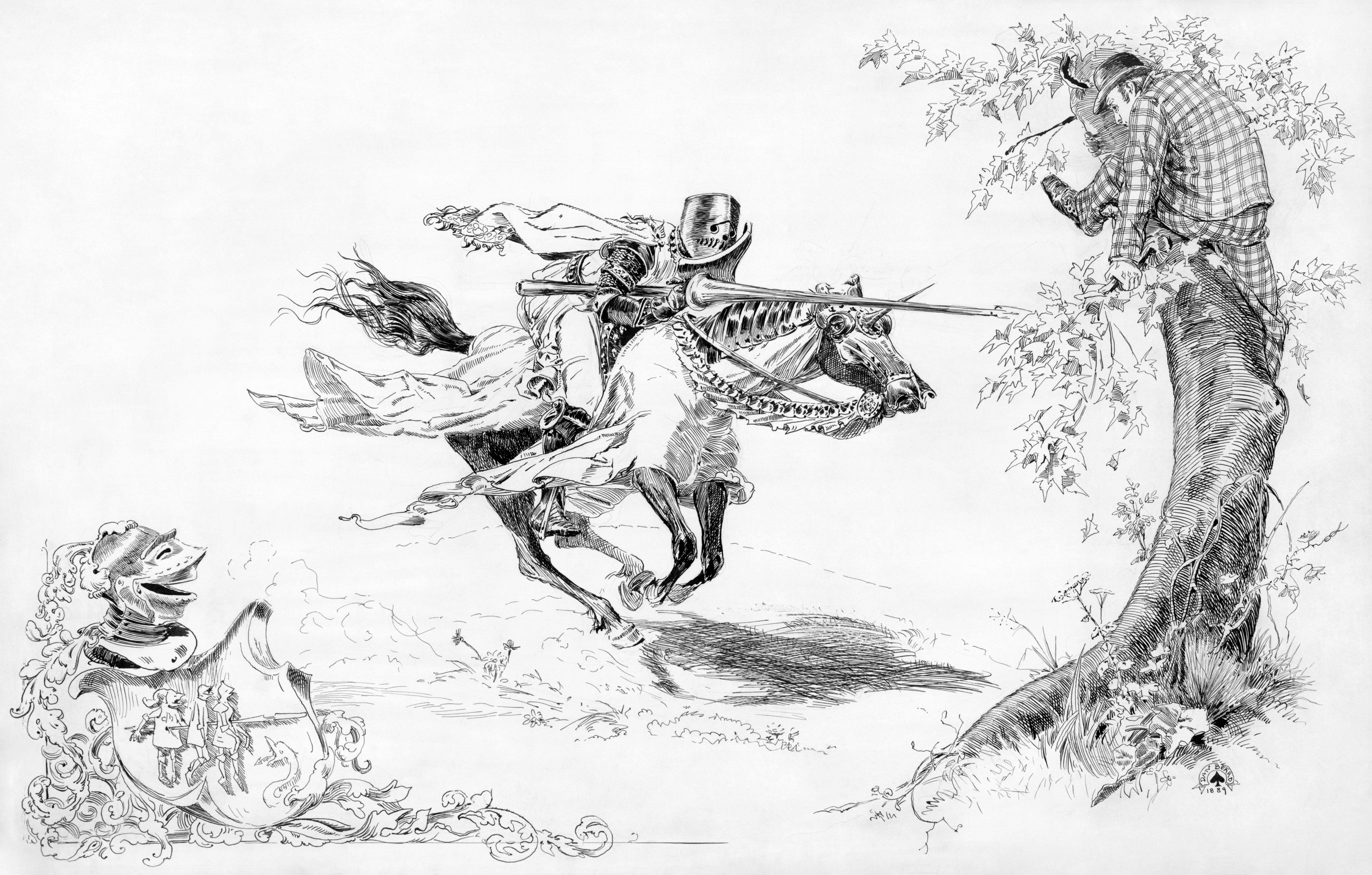 "Knight in armor tilting at man in modern dress in tree onto which a man in modern dress has climbed for refuge", "Published as frontispiece in: A Connecticut Yankee in King Arthur's Court / Samuel Clemens. New York : Charles L. Webster & Co., 1889. ", "1 drawing : pen and ink over graphite underdrawing ; sheet 36 x 57.1 cm."